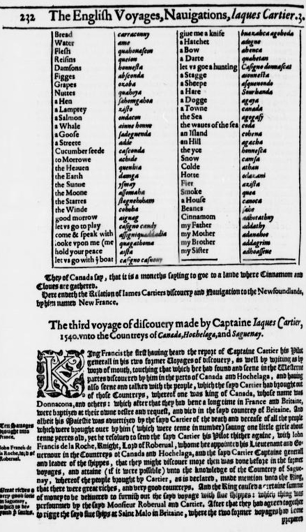 Jacques Cartier, Third voyage, in Hakluyt, Principal navigations, vol. 3. First page